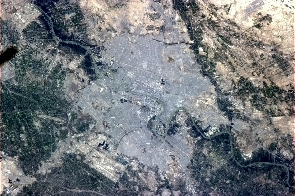 "Baghdad, Iraq. Gigantic capital along the Tigris. Once the largest city on Earth, millions of us call this city home." Caption by astronaut Chris Hadfield aboard the International Space Station.